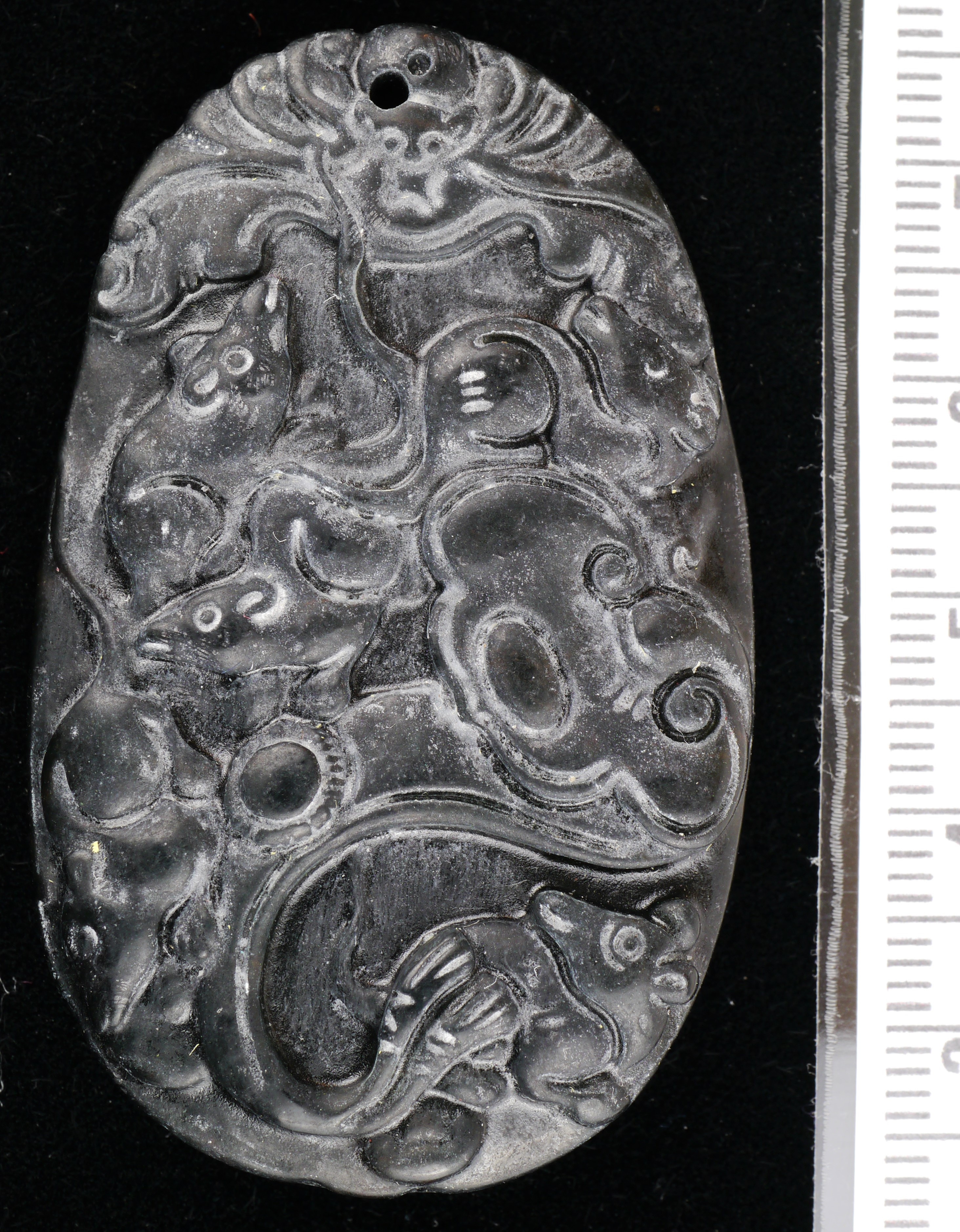 Chinese zodiac pendant with 5 rats climbing ruyi, bat at top of pendant; carved green stone, looks blackish without light and flaked with lighter grey- very dry like it was recently industrially cleaned. Dimensions: 32mm width, 52mm height, 7mm tall